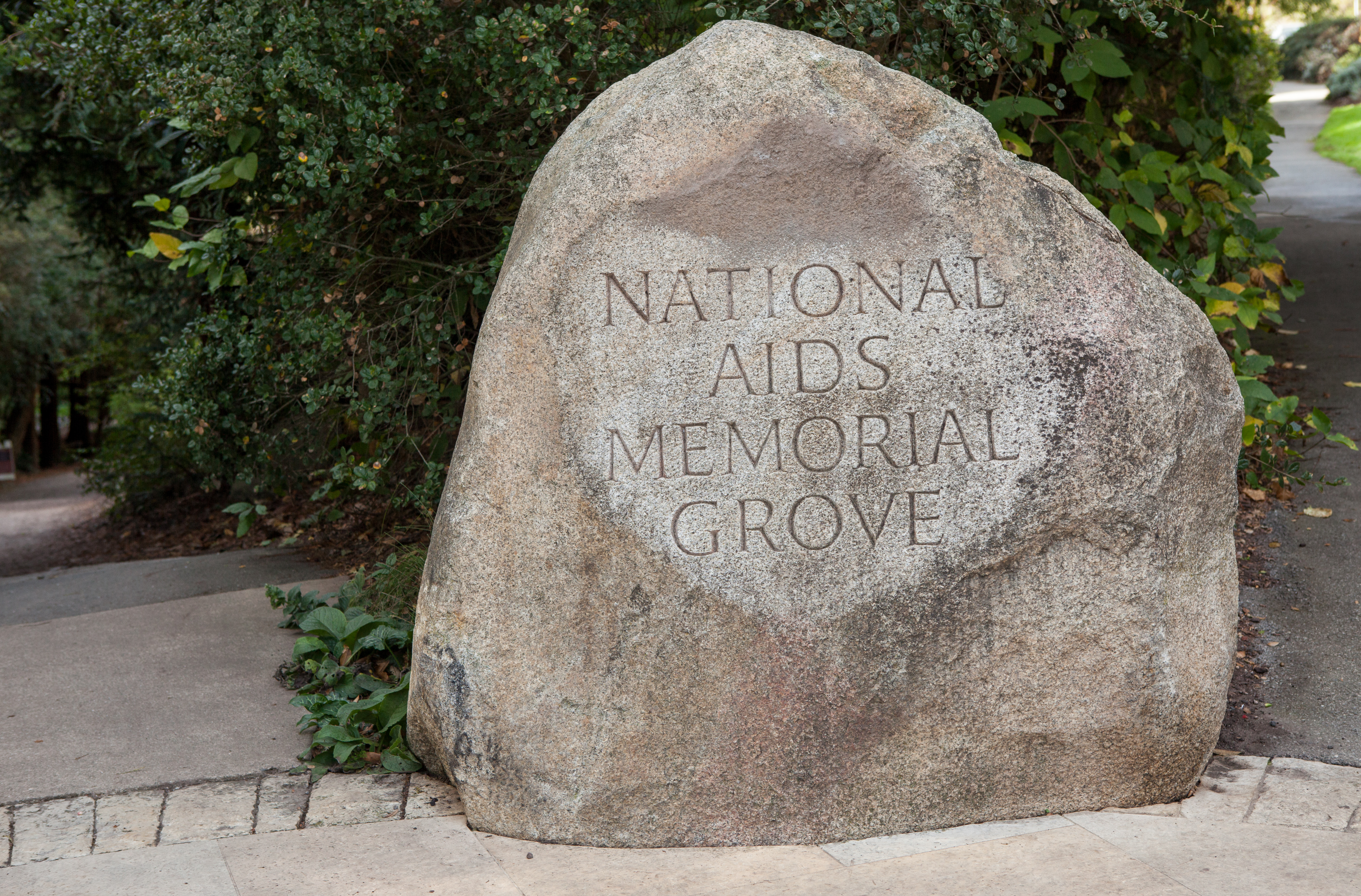 Marker at an entrance to the National AIDS Memorial Grove, San Francisco.